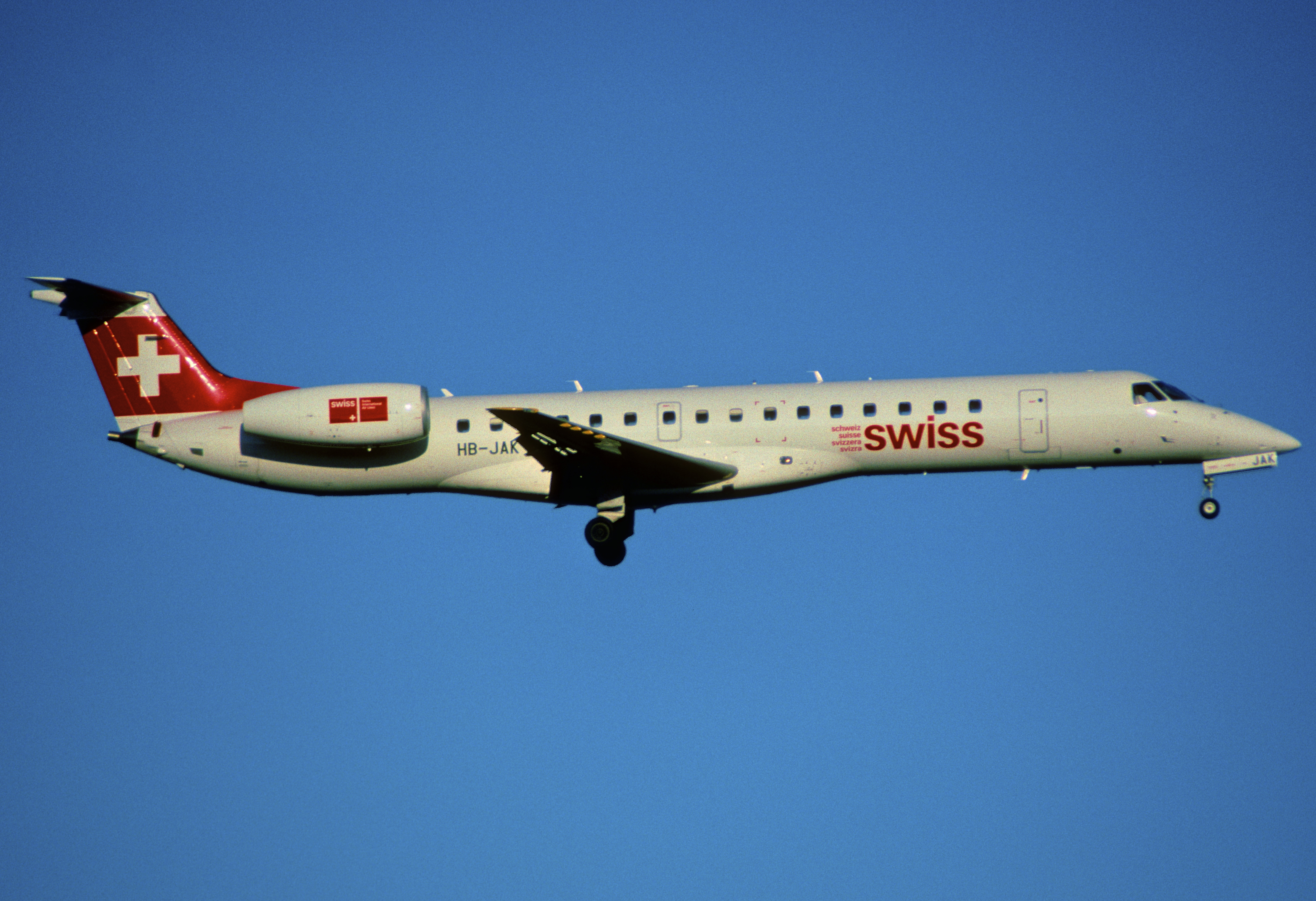 268by - Swiss Embraer ERJ145; HB-JAK@ZRH;07.12.2003